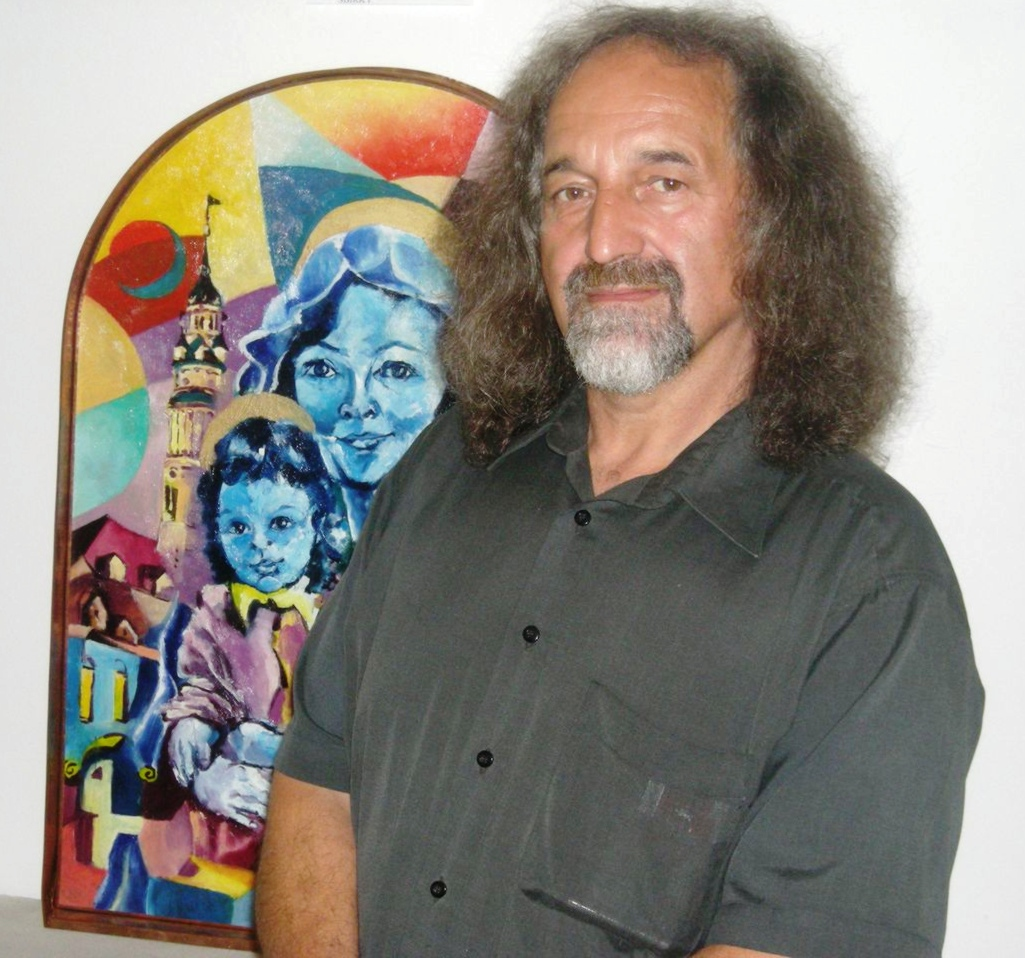 Madonna of Český Krumlov+painter Jiří Meitner